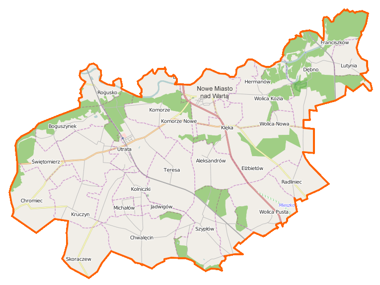 Map of Gmina Nowe Miasto nad Wartą, Poland This map of Nowe Miasto nad Wartą (gmina) was created from OpenStreetMap project data, collected by the community. This map may be incomplete, and may contain errors. Don't rely solely on it for navigation. Border coordinates52.128917.2650←↕→17.527752.0075